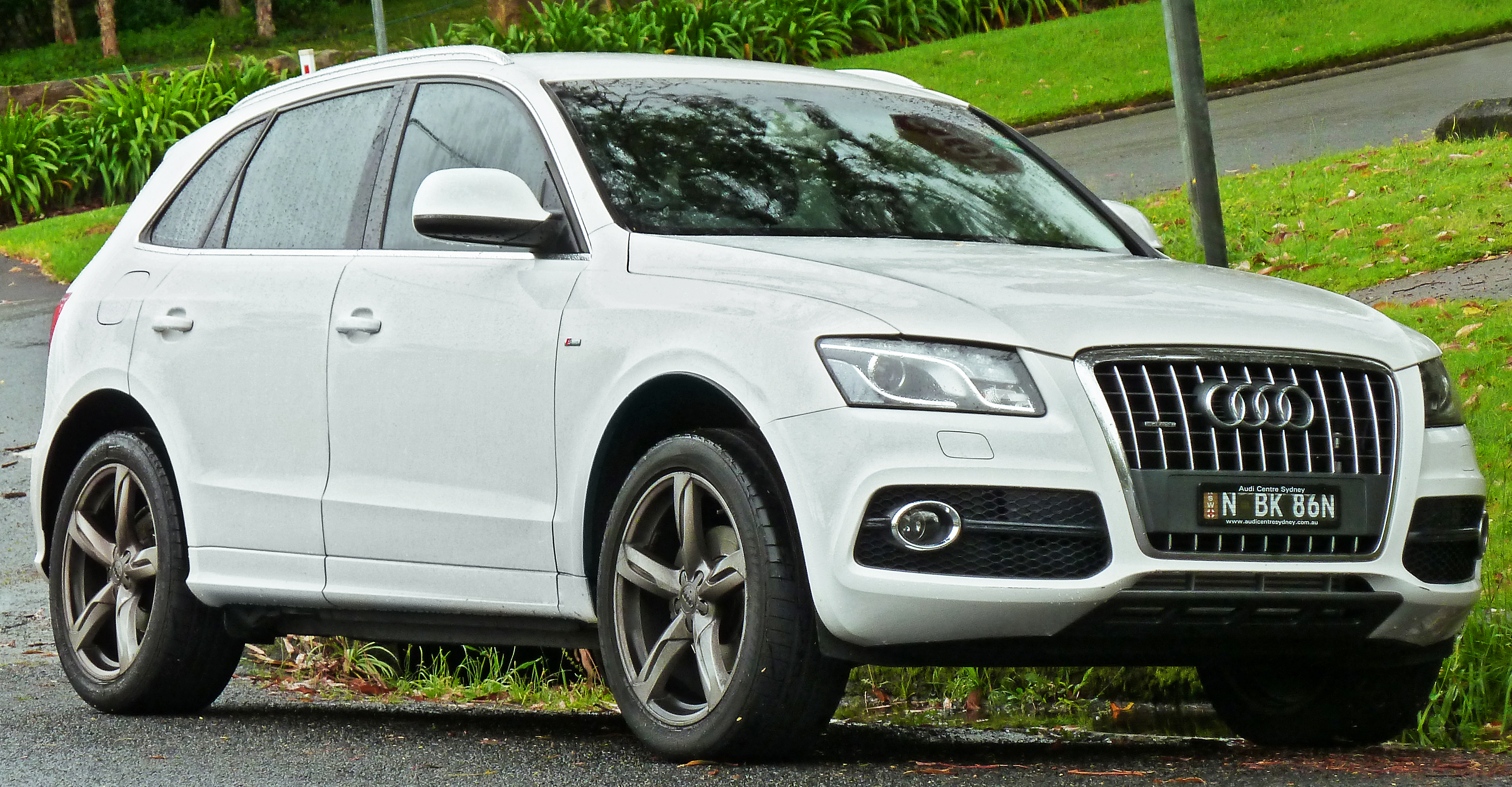 2009–2011 Audi Q5 (8R) 2.0 TFSI quattro wagon. Photographed in Roseville, New South Wales, Australia.